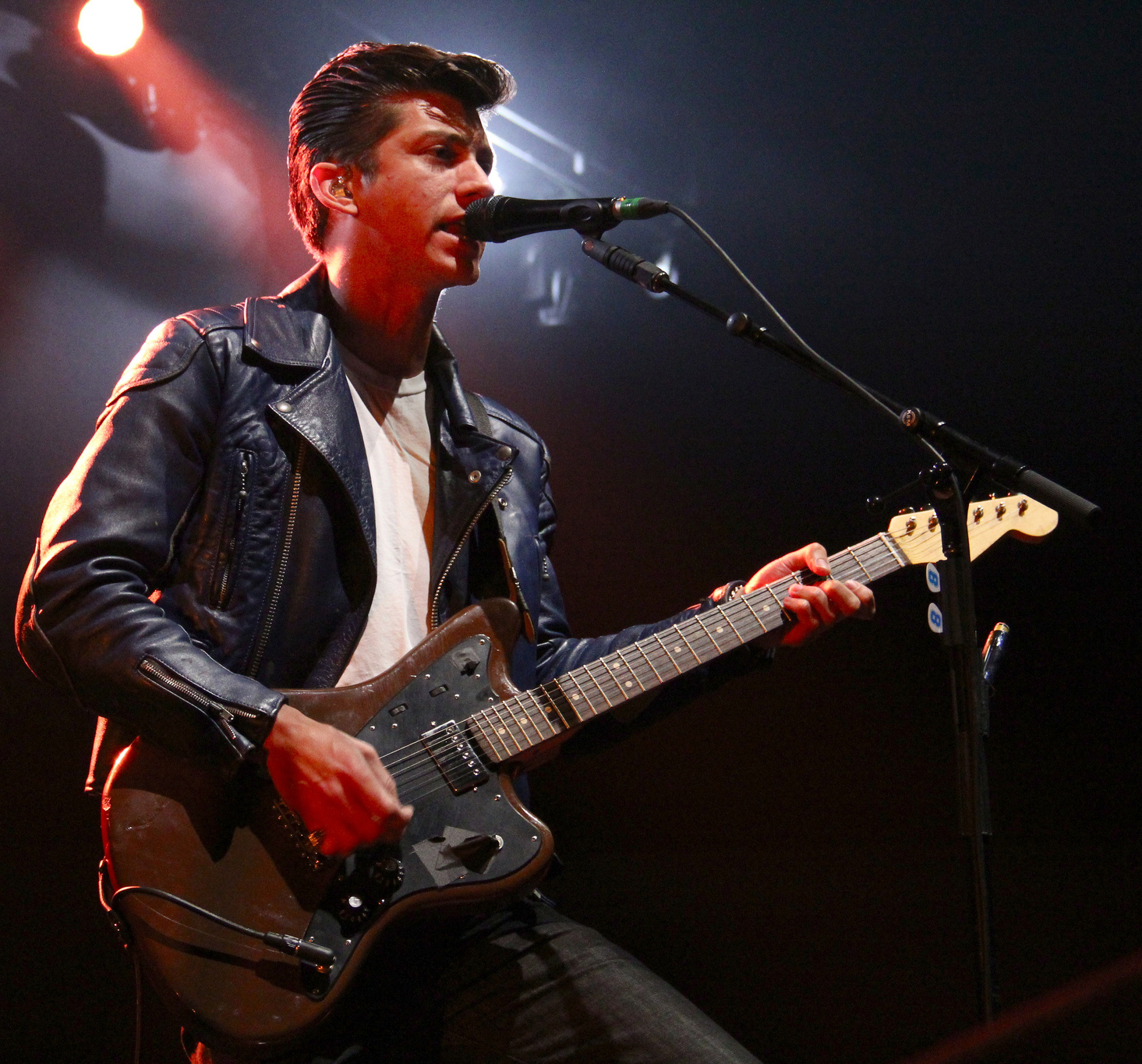 Alex Turner of the Arctic Monkeys performing in Tulsa, Oklahoma at the BOK Center, April 28th, 2012.